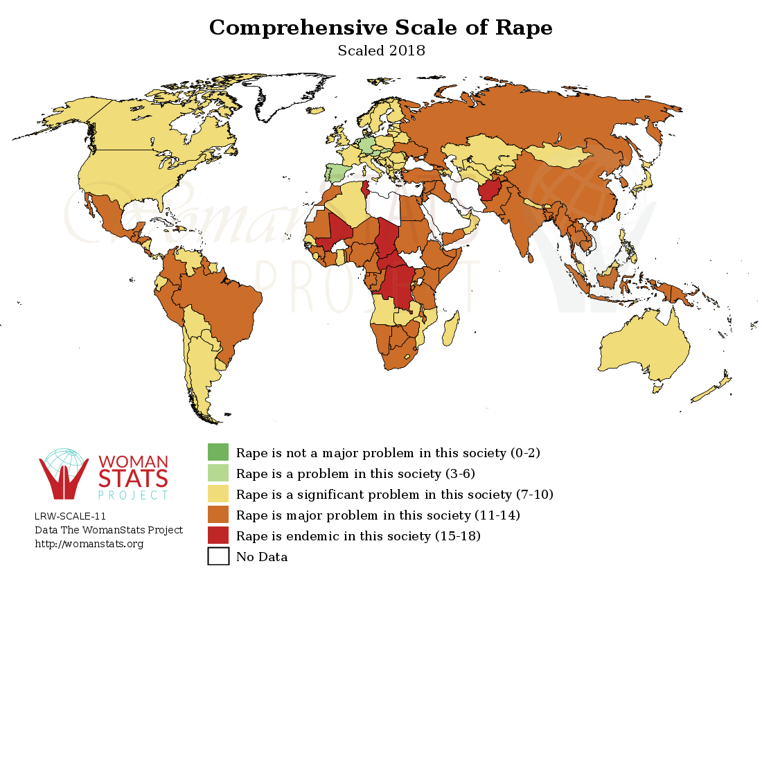 A Map of the world showing rape of women per 100,000 population in 2018.